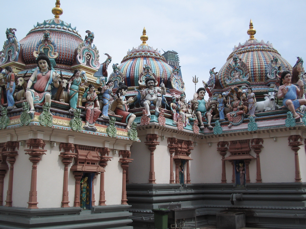 Sri Mariamman Temple in Singapore.